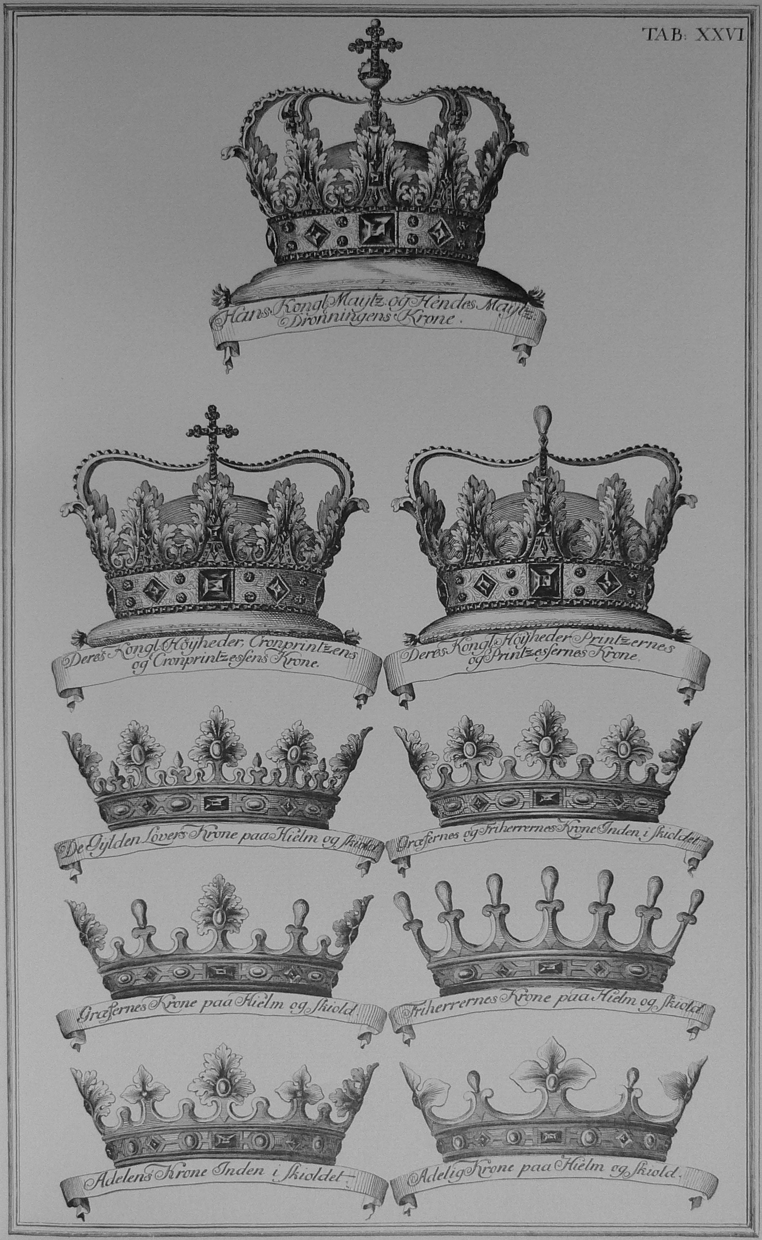 Danish crowns based on originals at Rosenborg Castle.From above and left to right: His Royal Majesty's and her Majesty the Queen's Crown Their Royal Highnesses, crown prince and crown princesses crown Their Royal Highnesses, The crown of princes and princesses The golden lion's crown on helmet and shield The crown of the Counts and Barons in the shield Counts crown on helmet and shield Barons crown on helmet and shield The crown of the nobility within the shield Noble crown on helmet and shield